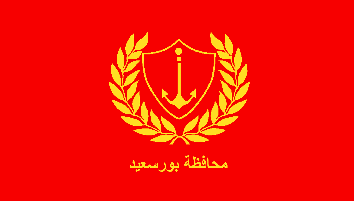 Flag of Port Said Governorate, Egypt